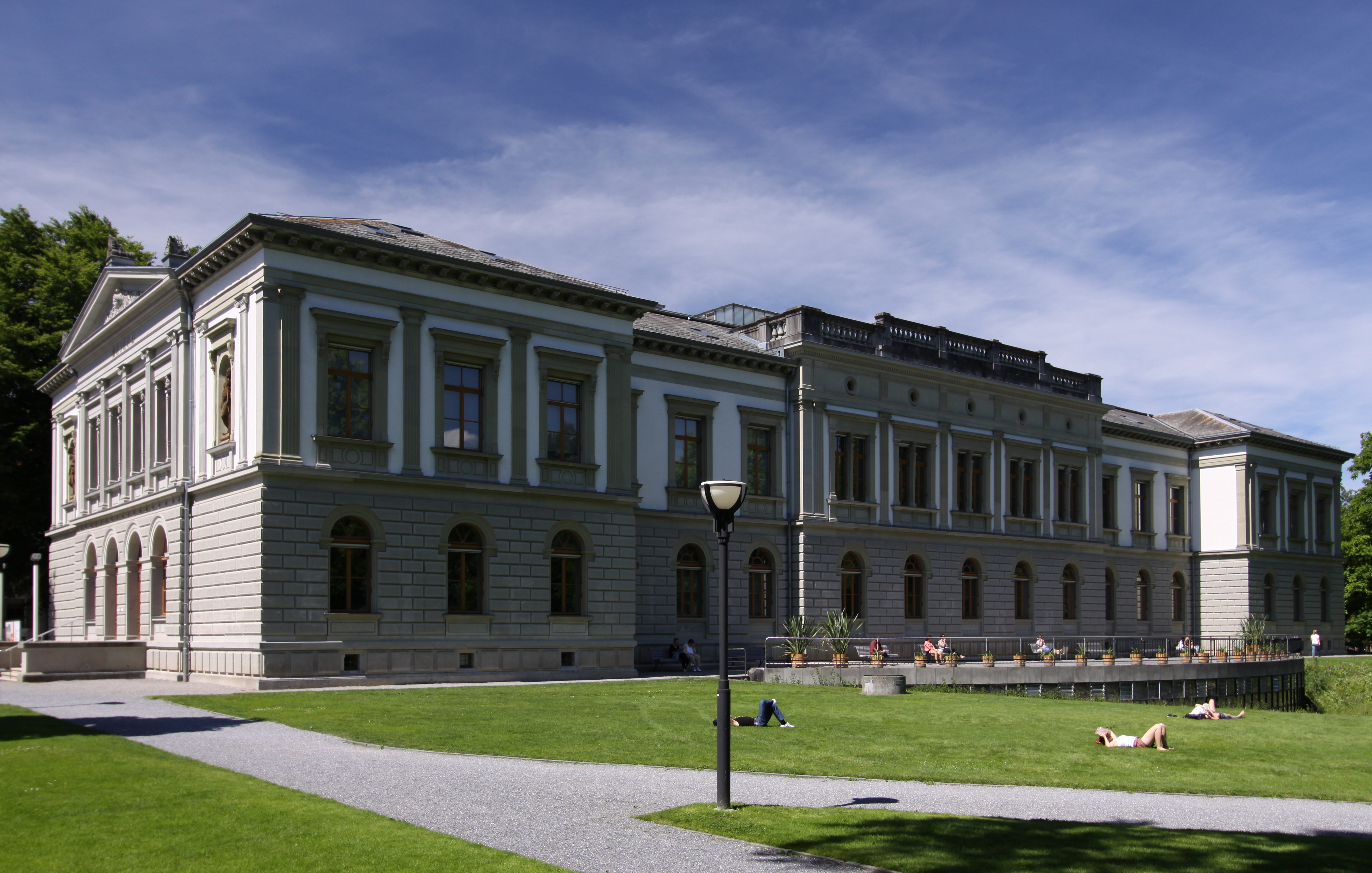 Art Museum and former Natural History Museum, Museumstrasse 32, St. Gallen